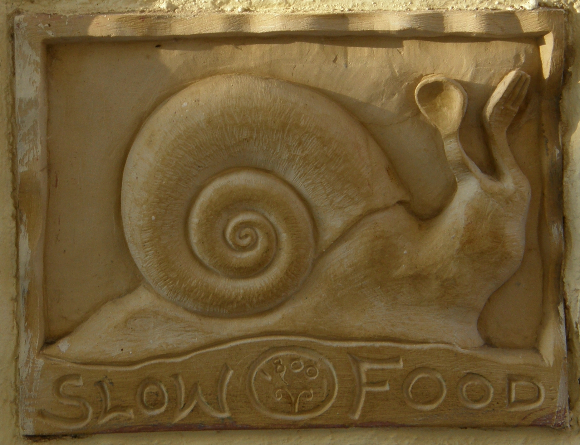 A sign outside the well known restaurant "1800" at Oia of Santorini, Greece...